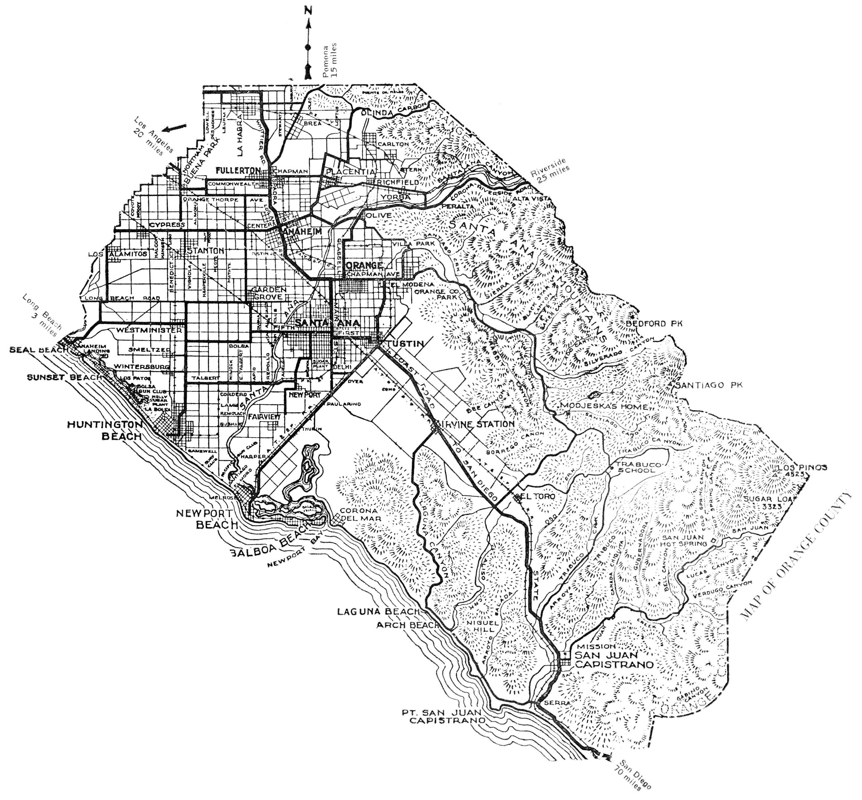 Photo of 1921 Orange County map — in Southern California. From the 1921 promotional brochure, "Orange County California, Nature's Prolific Wonderland - Spring Eternal." Rights Advisory No known restrictions.